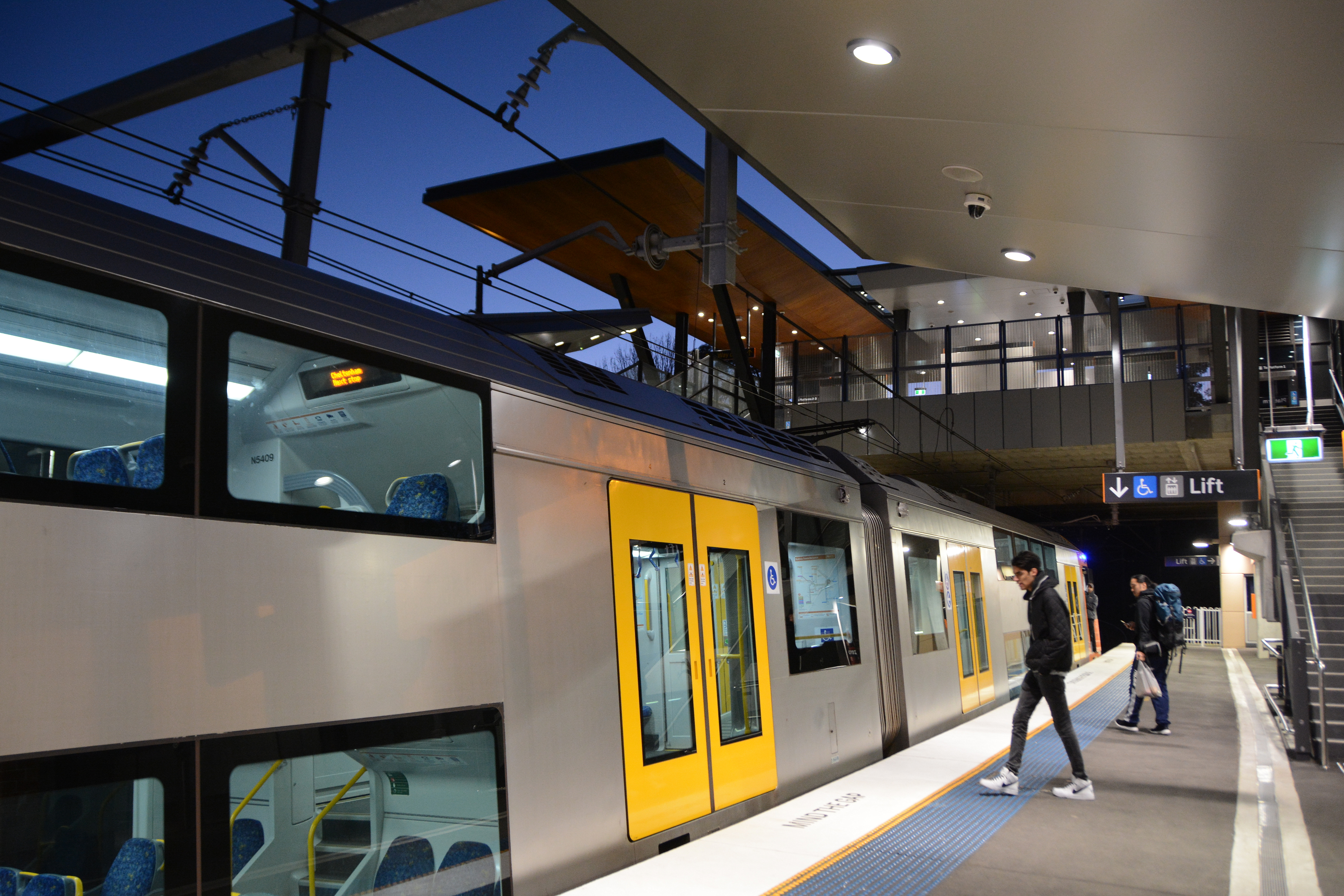 Cheltenham railway station, Cheltenham, Sydney